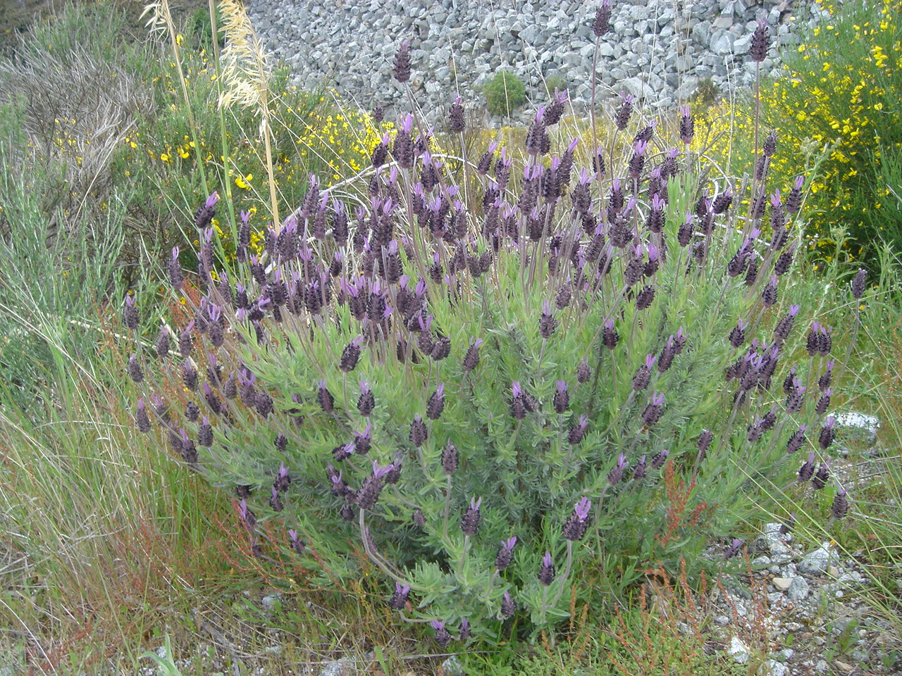 Lavandula stoechas